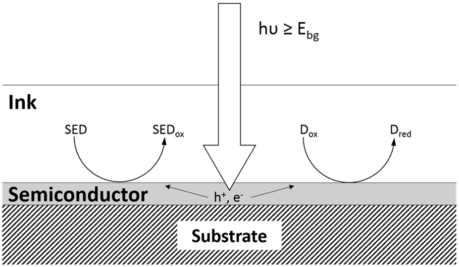 Figure 1. Processes involved in photocatalyst activity inks